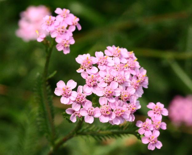 Fiore Achillea millefolium